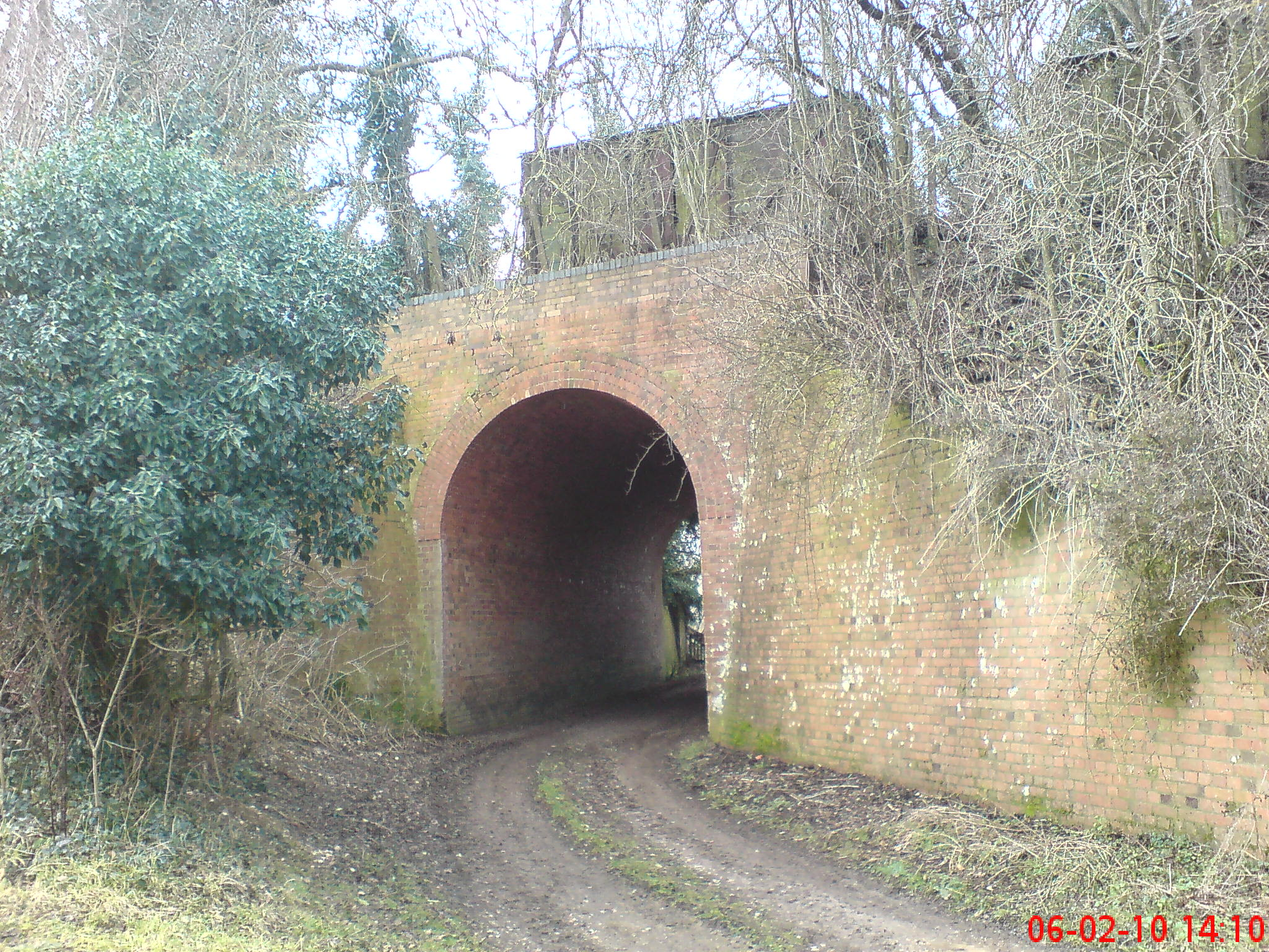 Grounded SR freight wagons (on the bridge) ape a by-gone era on the former DN&S Railway near Whitchurch, Hampshire.